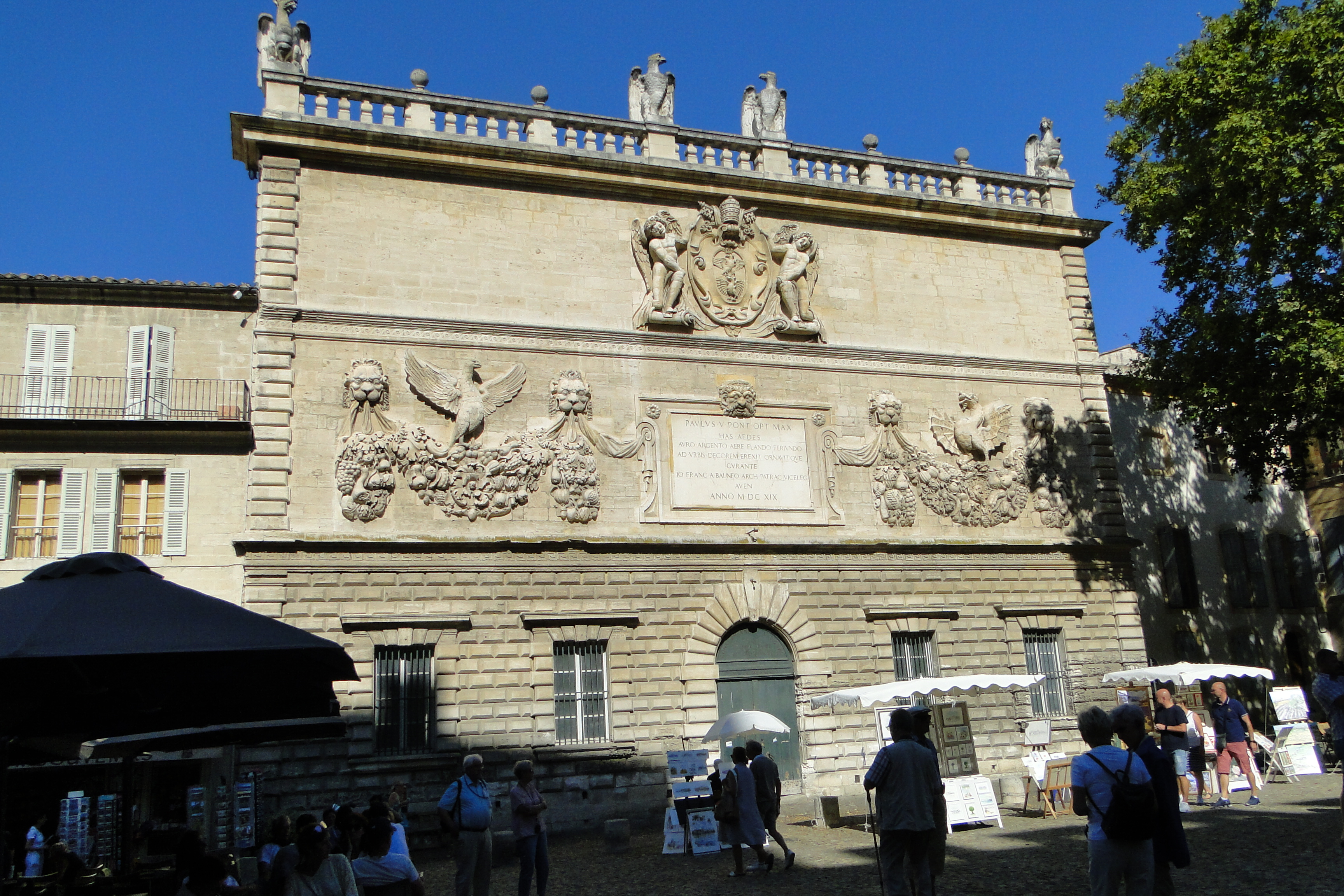 The Mint (Hotel des Monnaies)